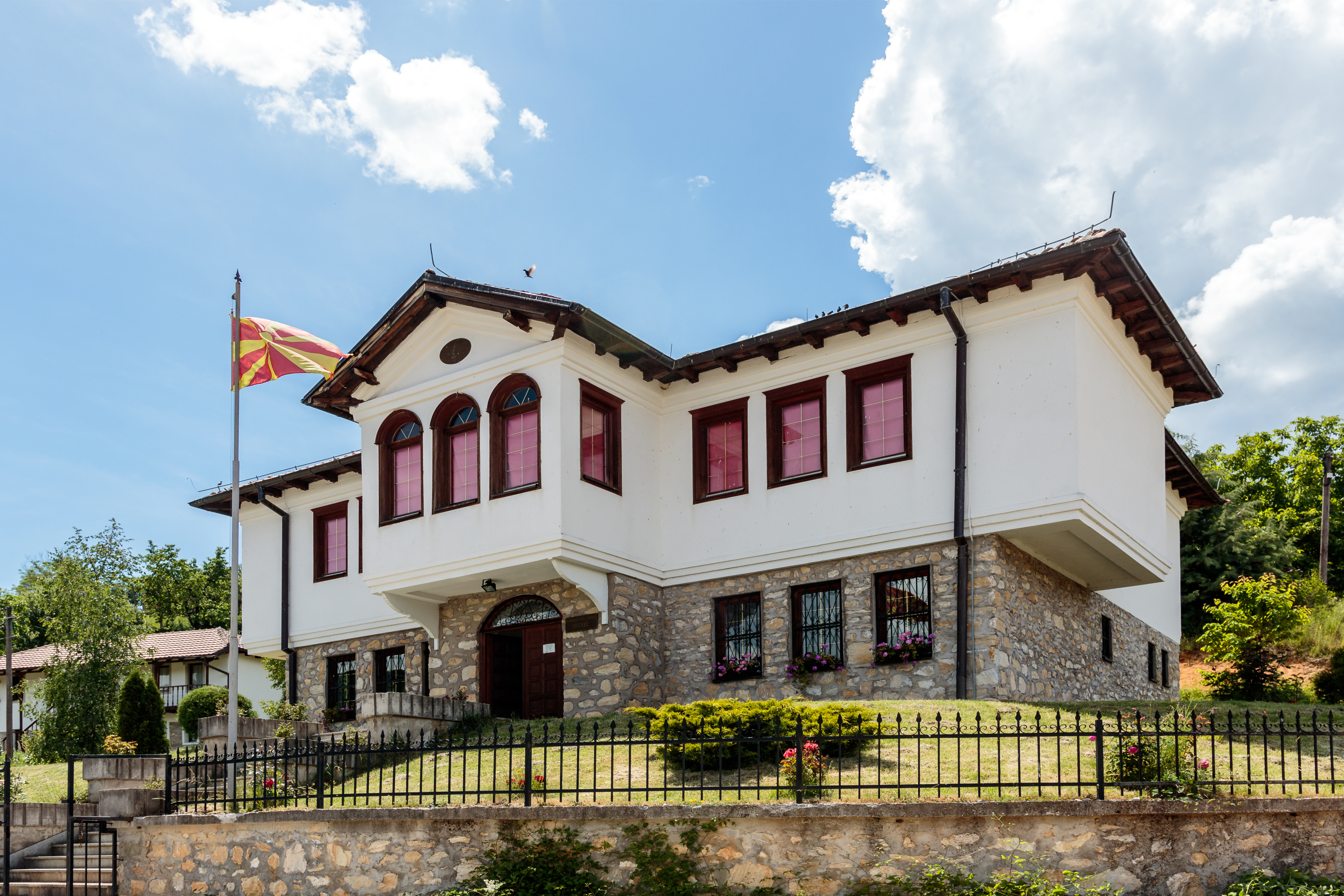 View of the Smilevo Museum